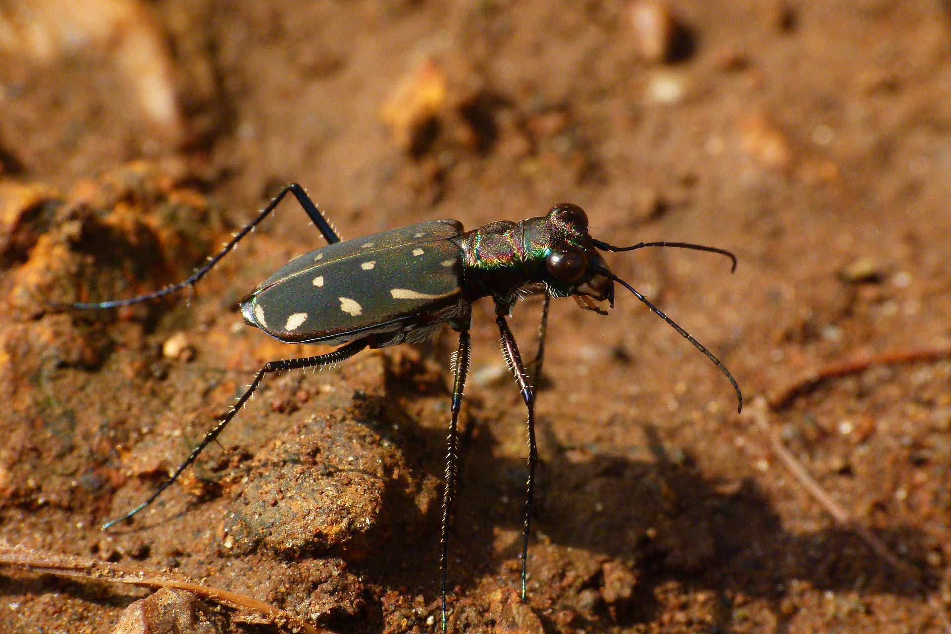 Lophyra lineifrons, Moolehole, Bandipur, India (Identified from photograph by Michael Geiser)